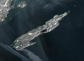 Image of Isle Royale taken on Christmas day.